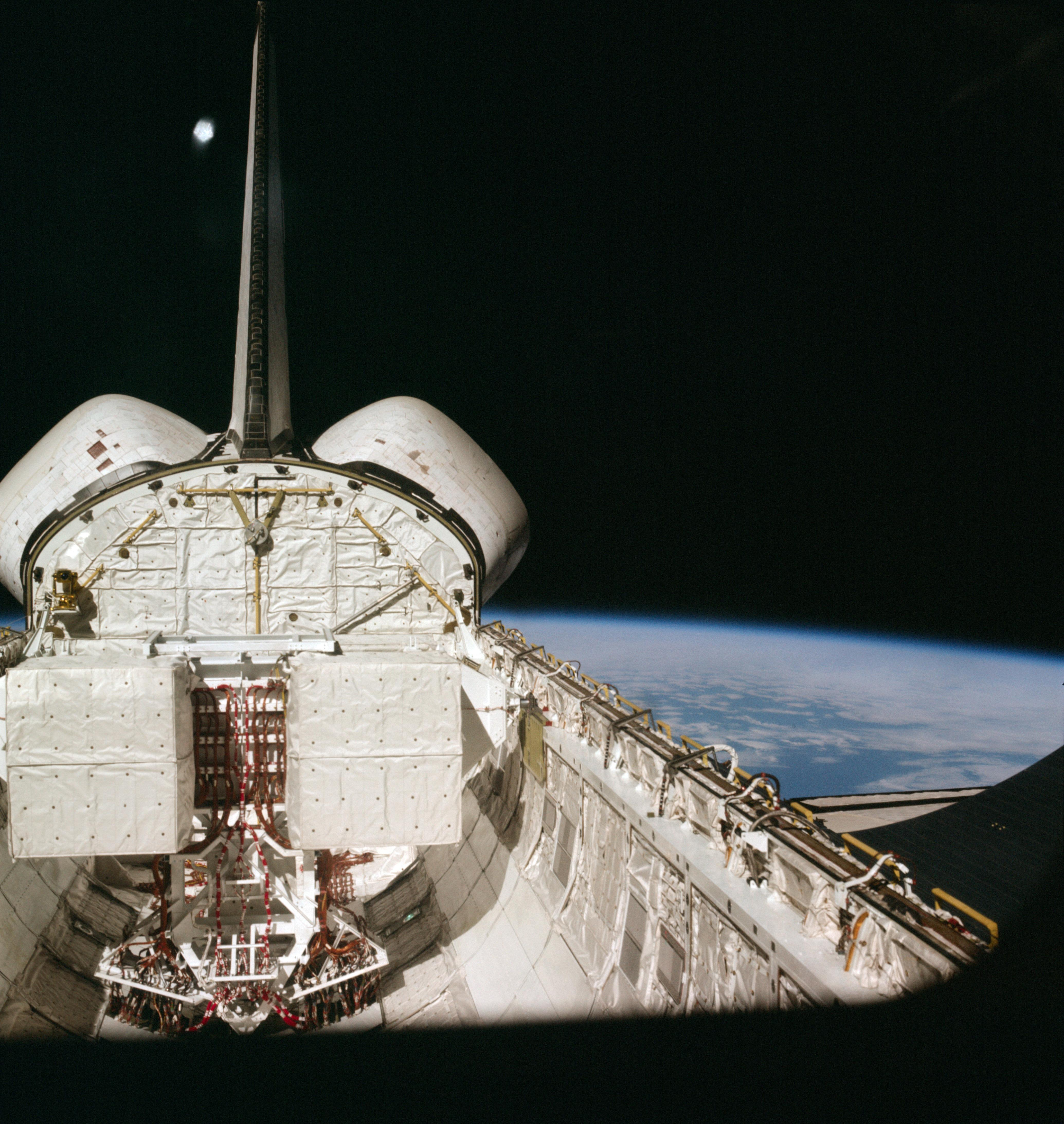 On the craft's maiden voyage, the crew of space shuttle Columbia took this image that showcases the blackness of space and a blue and white Earth, as well as the cargo bay and aft section of the shuttle. The image was photographed through the flight deck's aft windows. In the lower right corner is one of the vehicle's radiator panels. The pentagon-shaped object in the upper left is glare caused by window reflection.